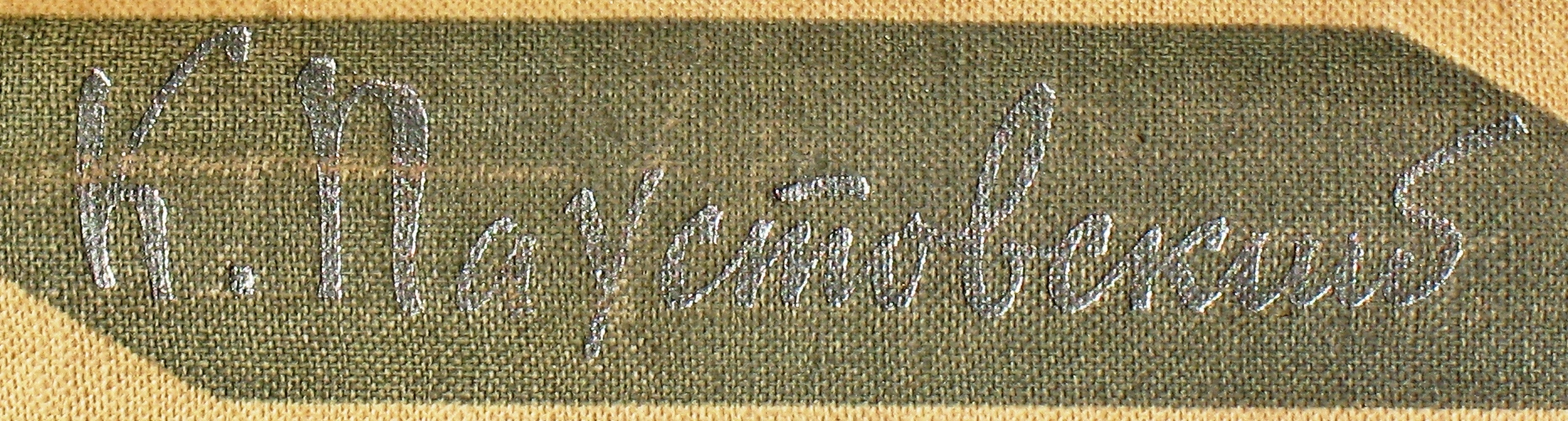 Russian writer Konstantin Paustovsky signature.